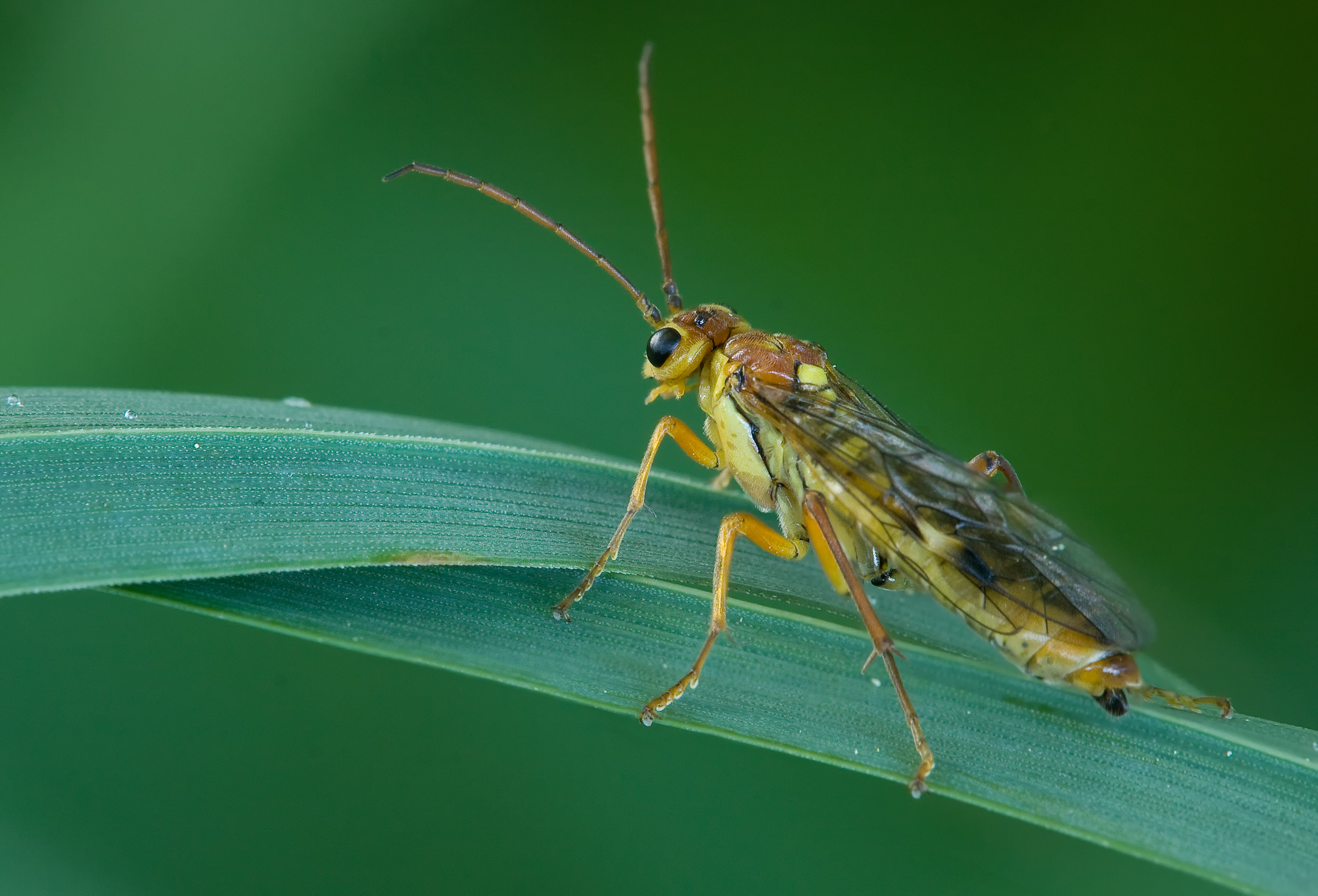 Sawfly. The Tenthredinidae is the largest family of sawflies, with well over 6000 species worldwide.